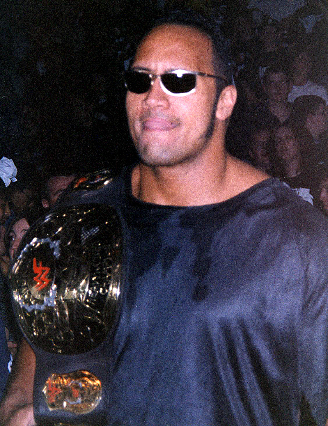 Dwayne "The Rock" Johnson with "Stone Cold" Steve Austin's Smoking Skull WWF Championship.